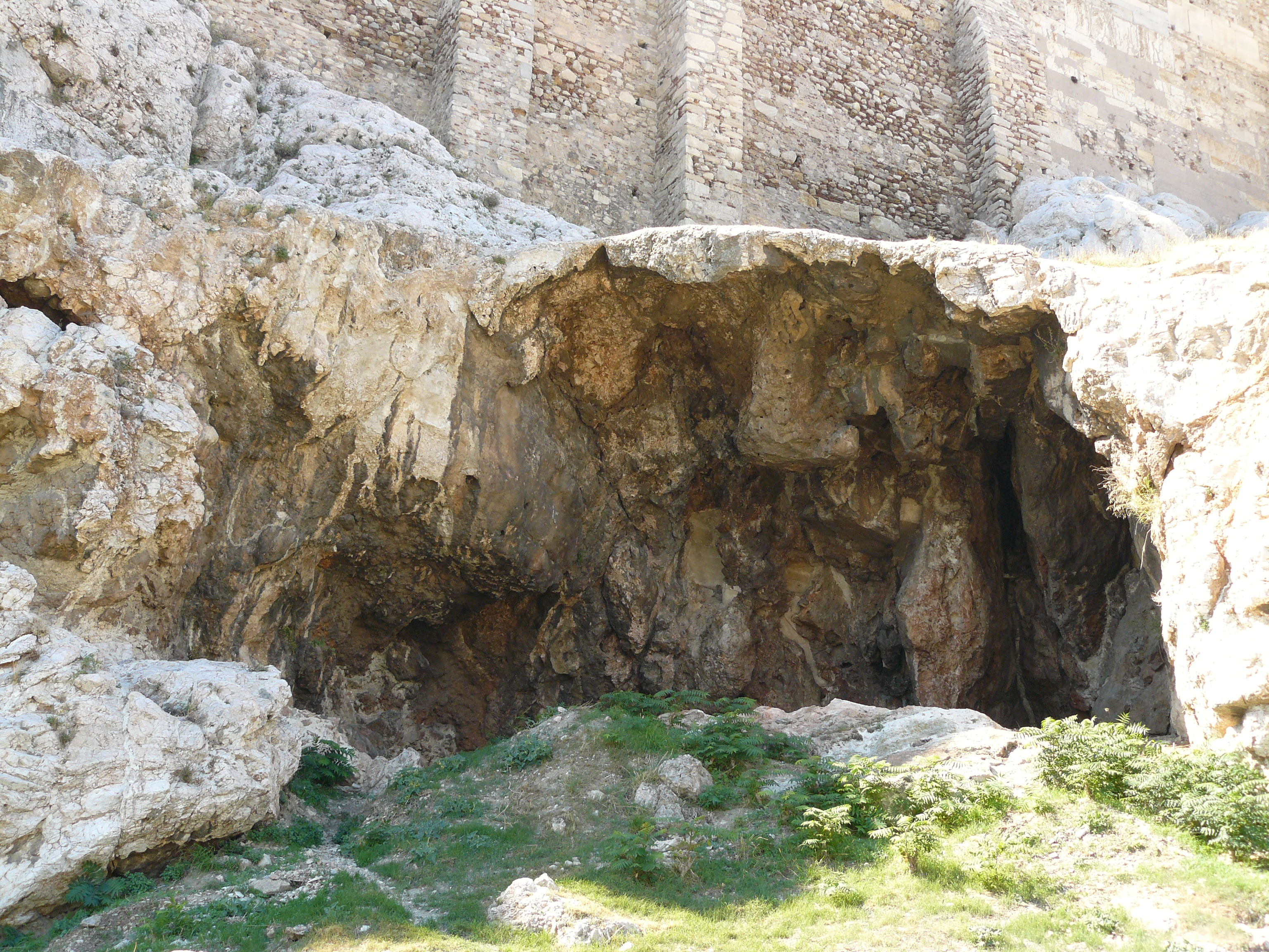 Cave of Aglauros, in the East of Acropolis of Athens